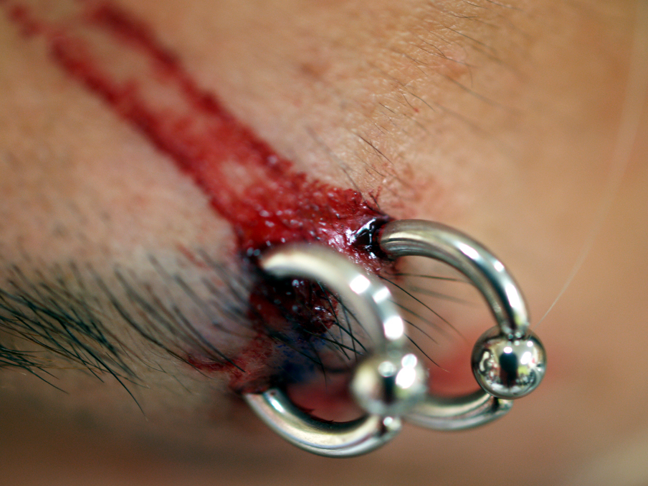 Bloody eyebrow piercings